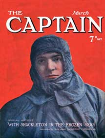 Captain, March 1917, Cover of the popular English magazine with Ernest Shackleton back from his epic expedition South This picture is the copyright of the Lordprice Collection and is reproduced on Wikipedia with their permission Source URL